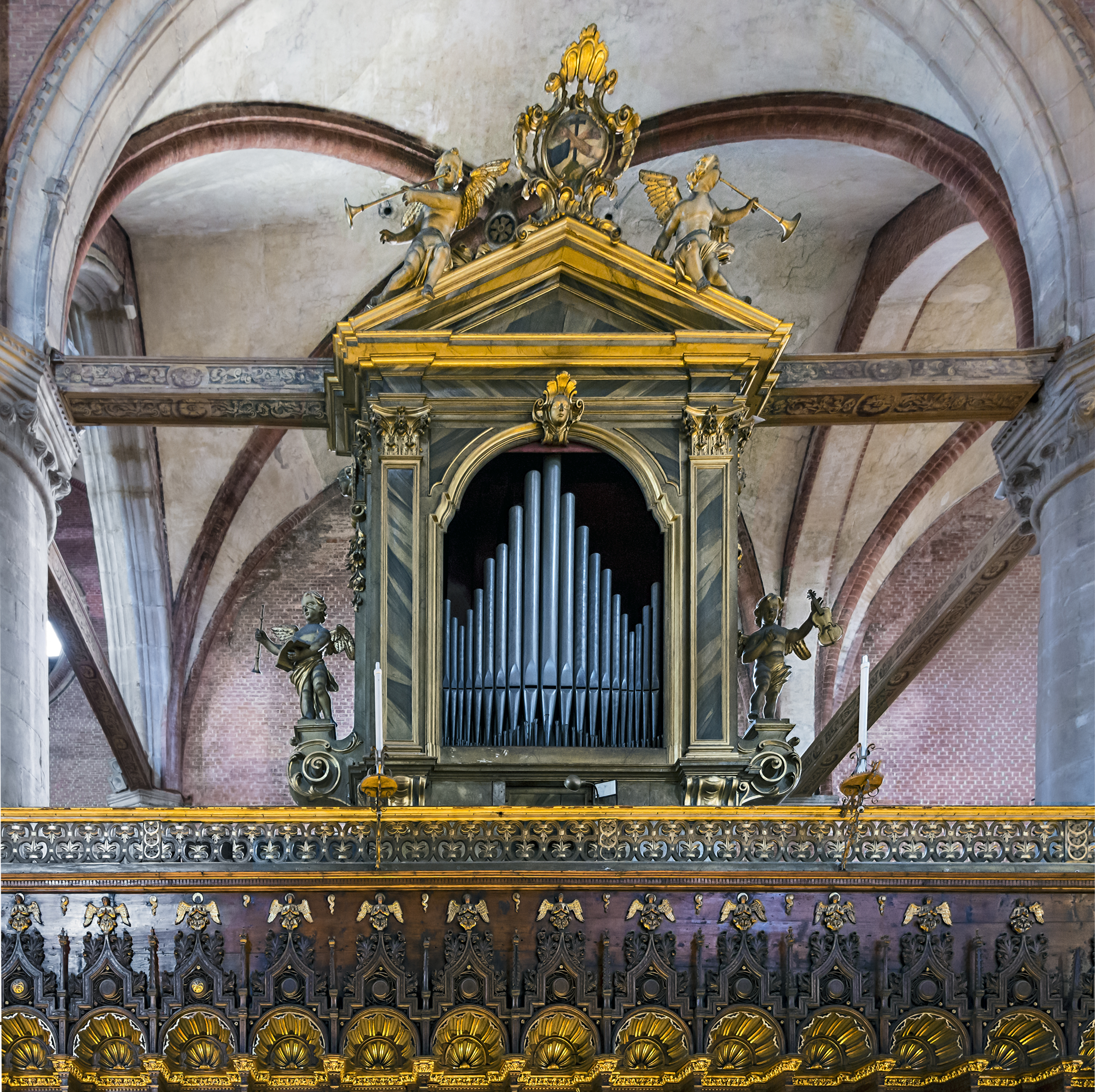 The Basilica di Santa Maria Gloriosa dei Frari. Right organ by Gaetano Callido.